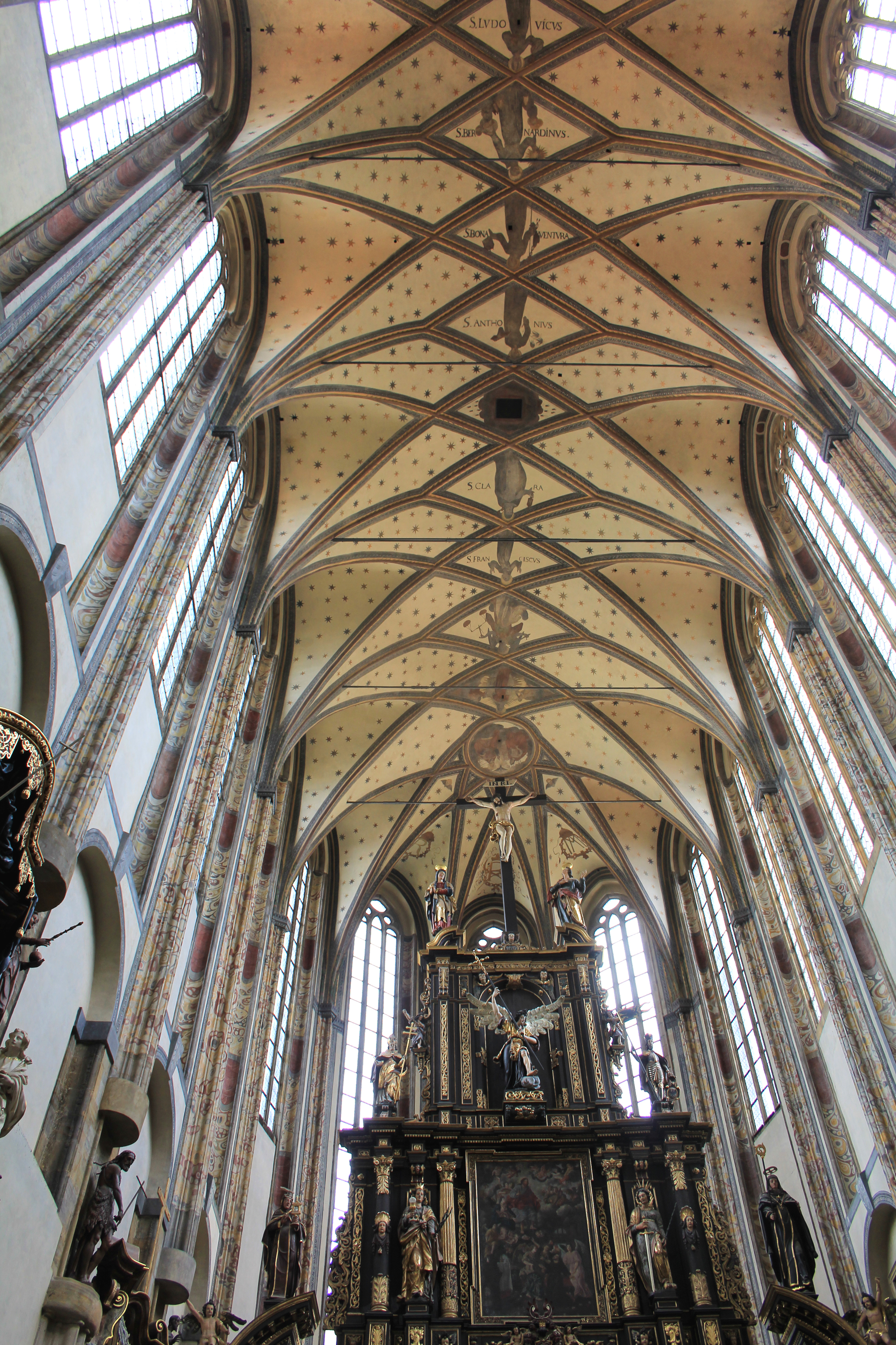 Interior of Church of Our Lady of the Snow, Prague, Czech Republic